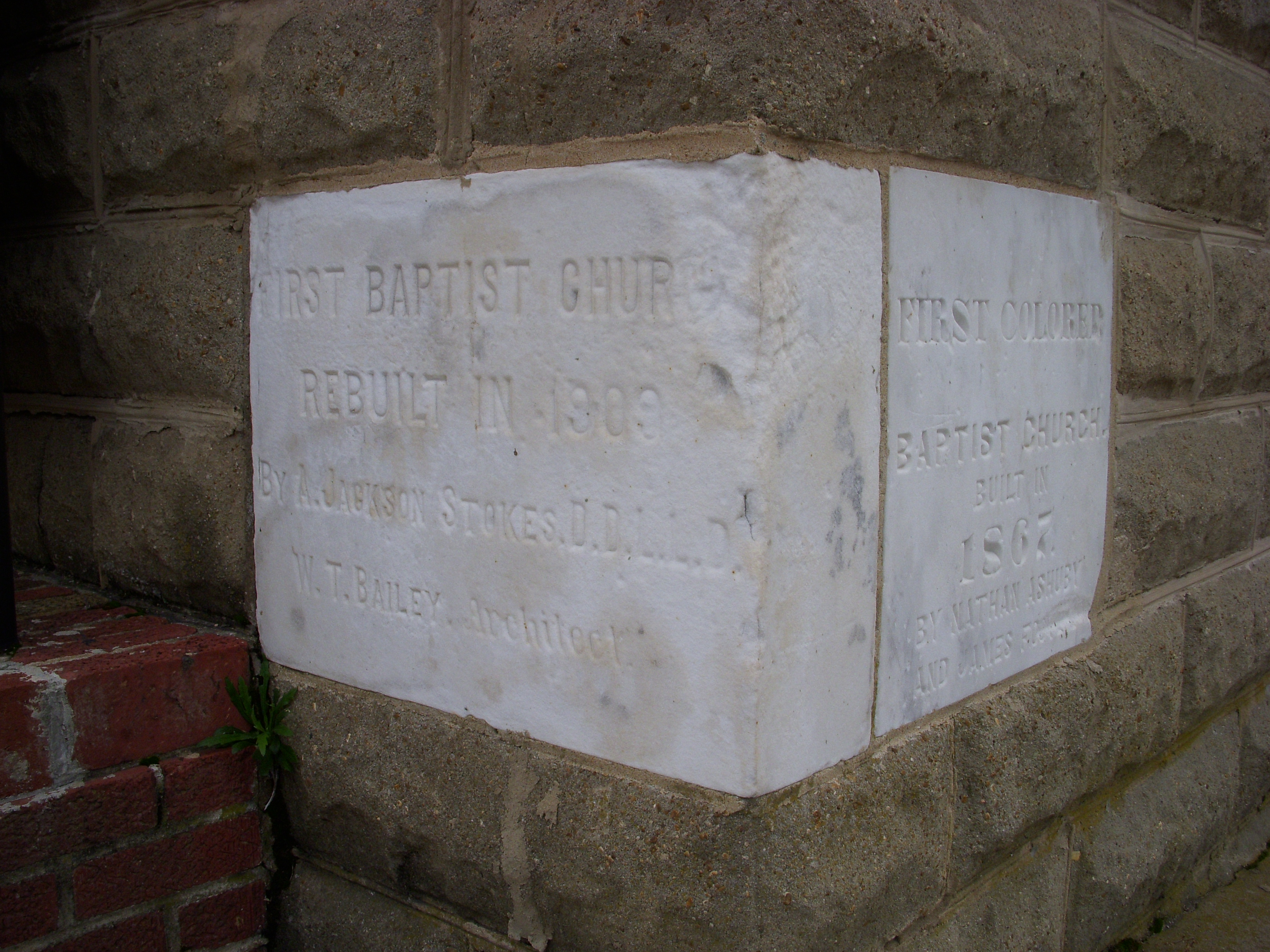 Photograph of the cornerstone of the First Baptist Church on Ripley Street in Montgomery, Alabama.